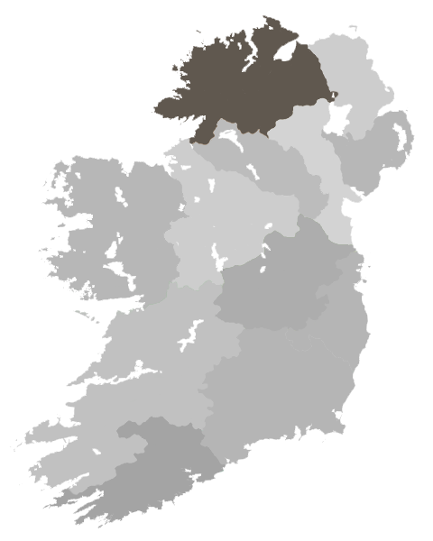 Location map of the Church of Ireland Diocese of Derry and Raphoe Information source: Church of Ireland website]